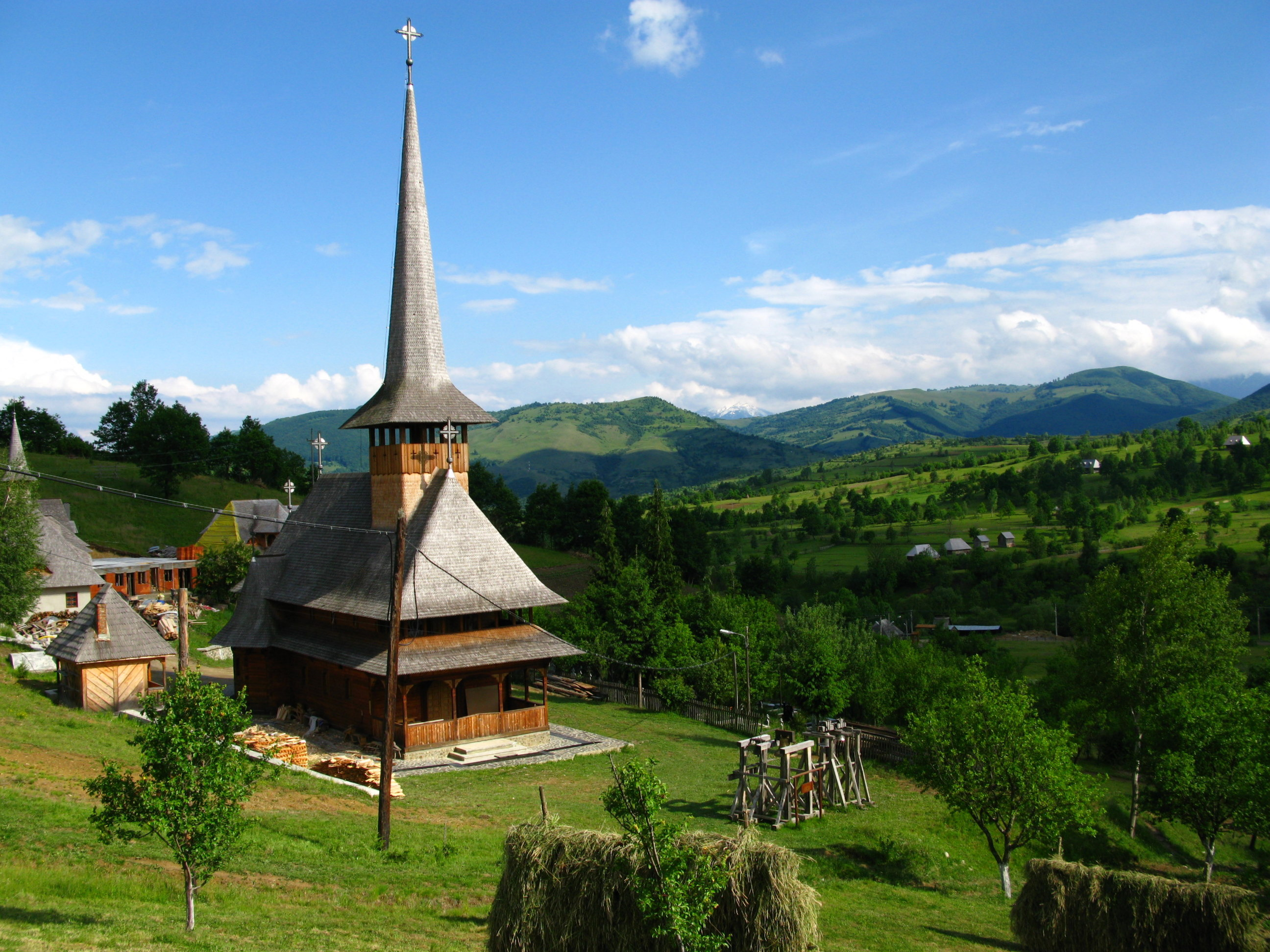 Contemporary monastery being buildt near Botiza in Maramureş Mountains (Inner Eastern Carpathians) in north of Rumania / EU.